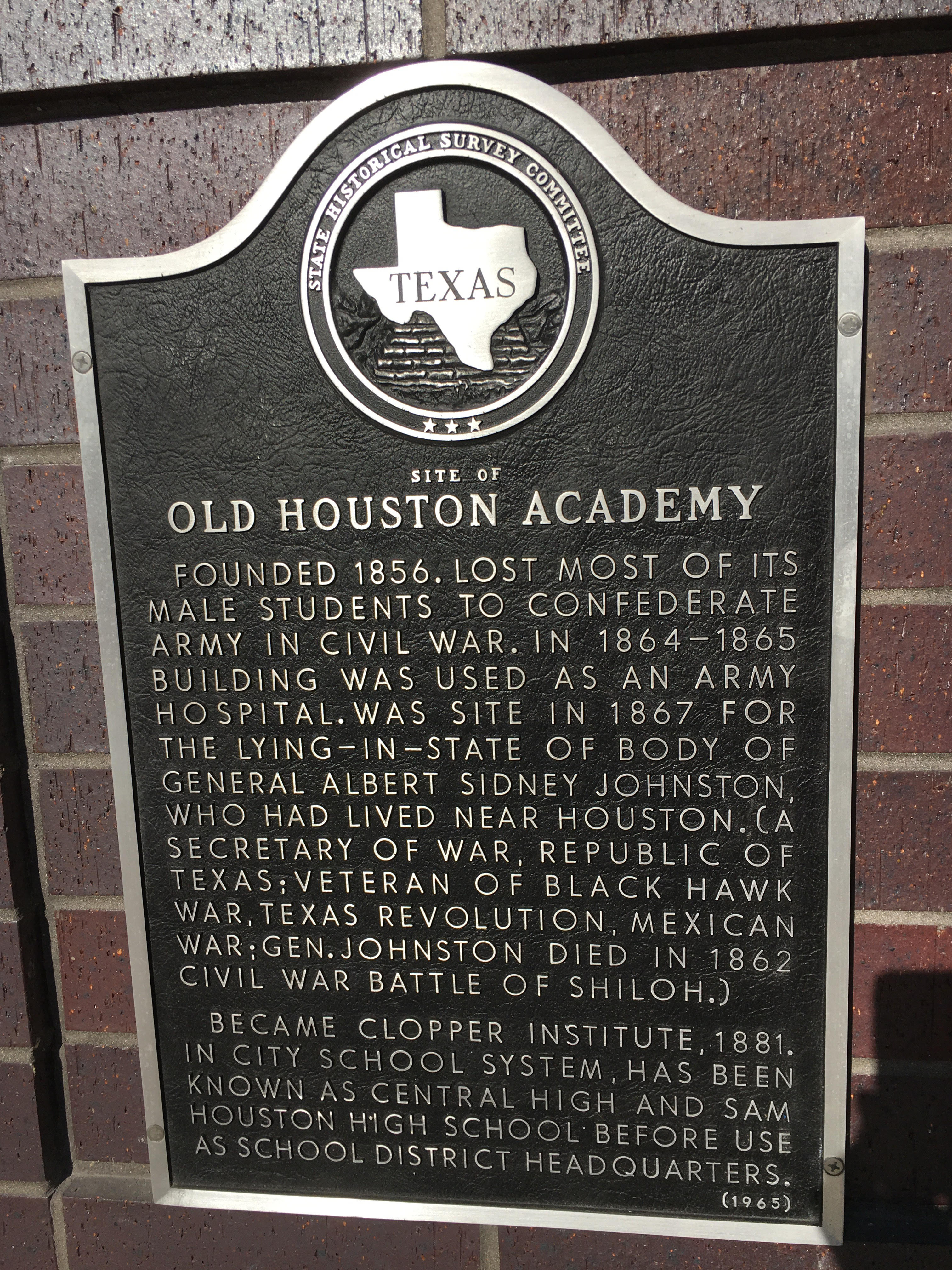 Picture of plaque located at entrance of new Kinder HSPVA campus.